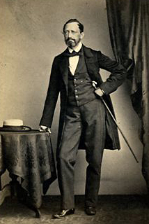 German composer Karl Georg Peter Grädener (1812-1883)